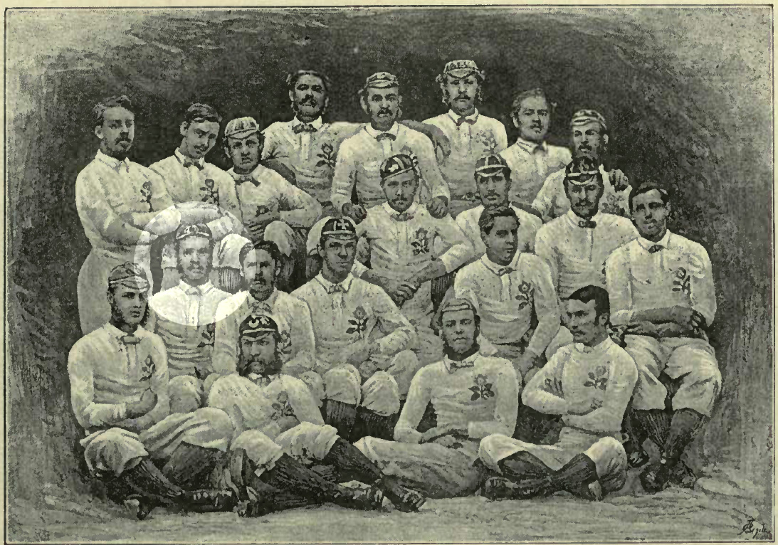 A picture of the first England Rugby side in 1871, with players from the Marlborough Nomads Football Club highlighted.